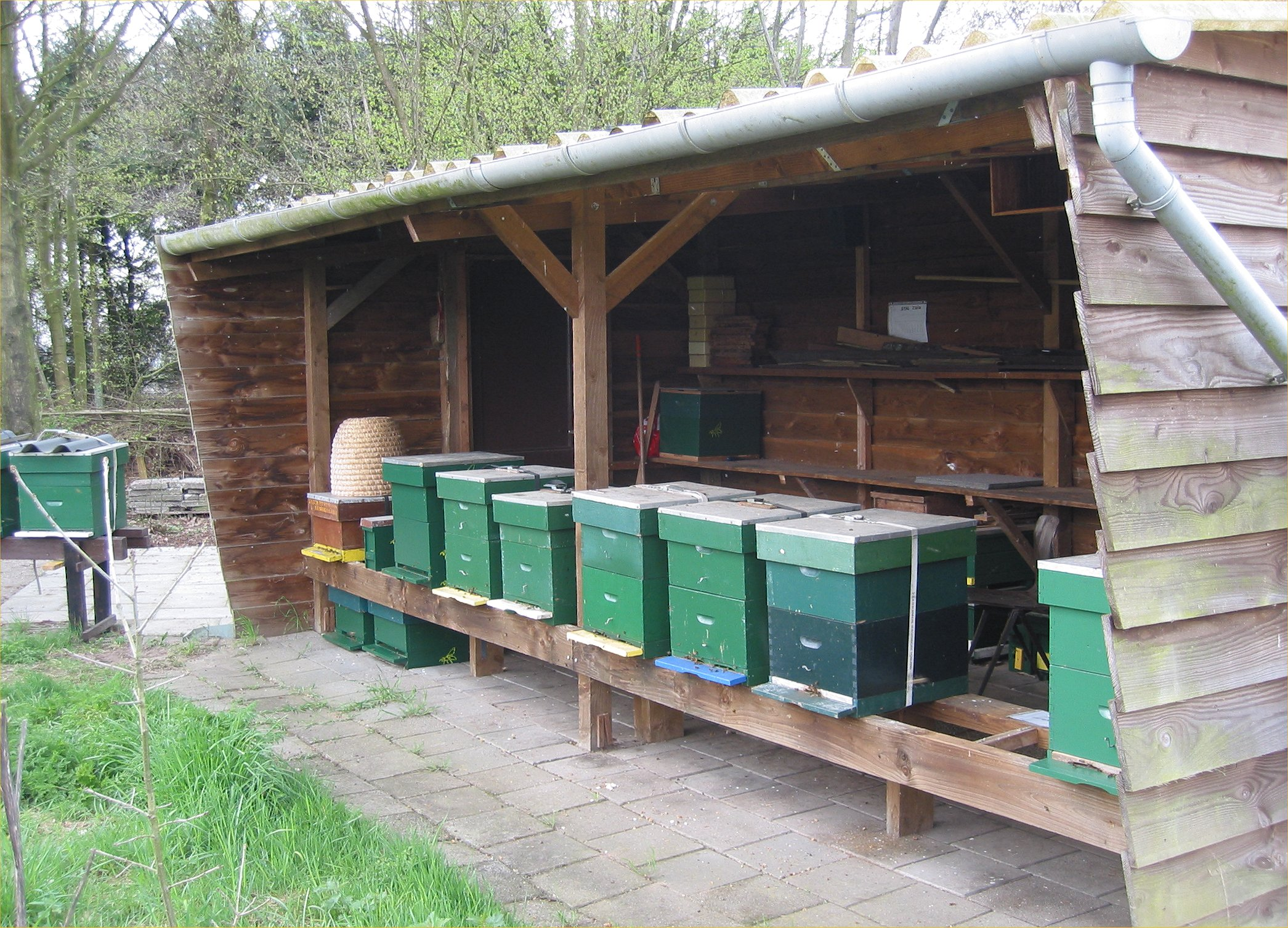 Honeybees